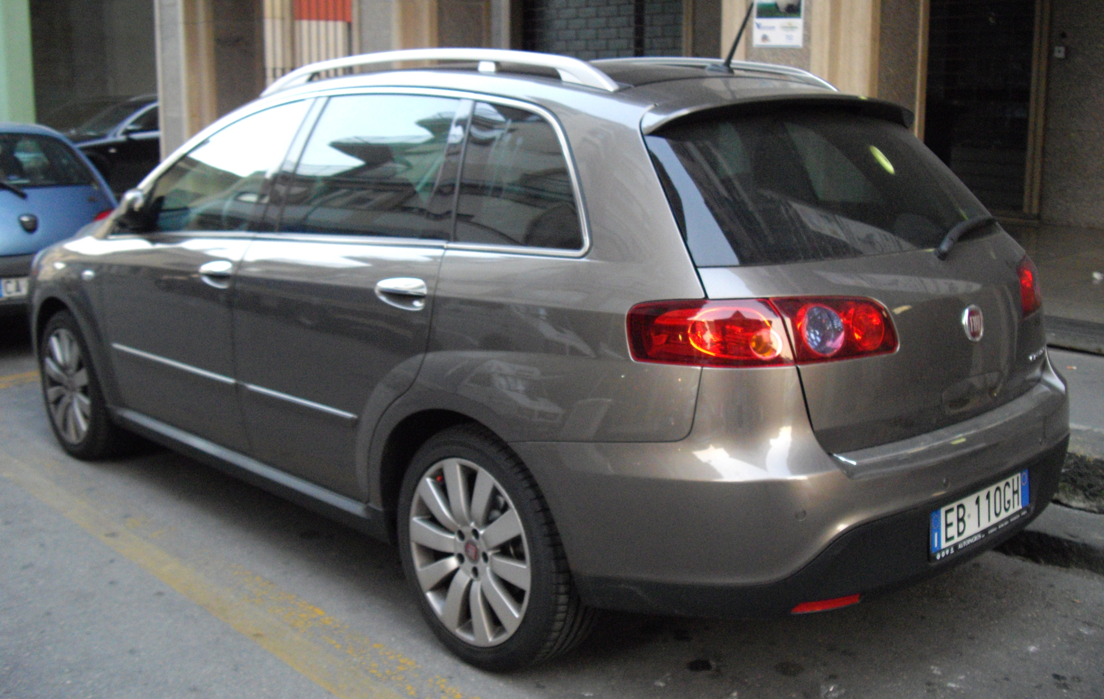 Fiat Croma rear